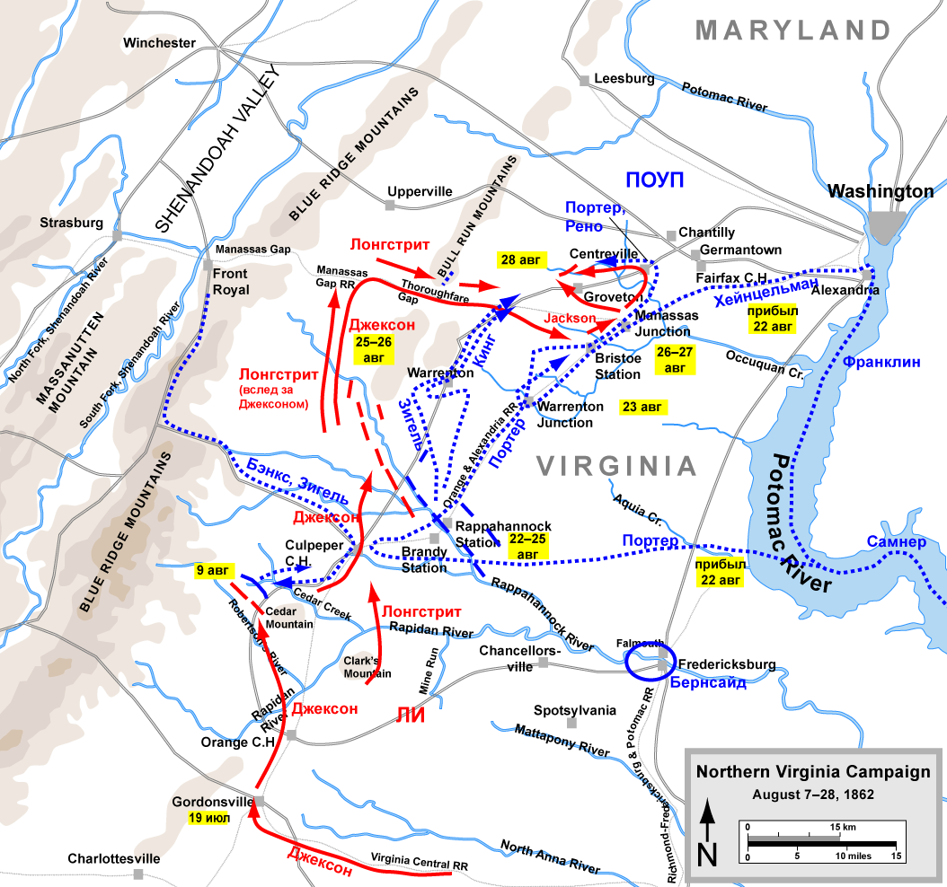 Map of the Northern Virginia Campaign of the American Civil War. Russian version